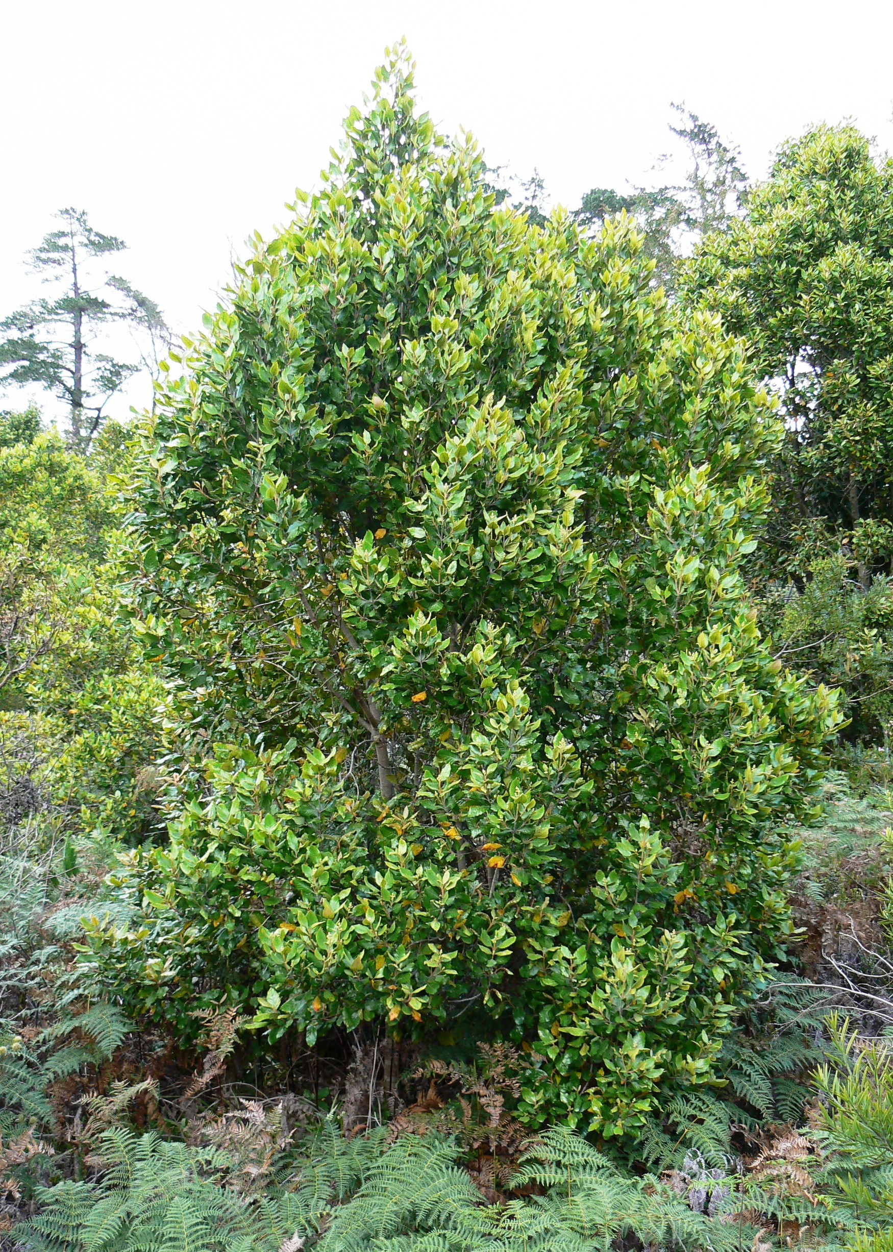 Juvenile Assegai tree. Curtisia dentata. Photo taken in a forest clearing on Table Mountain.